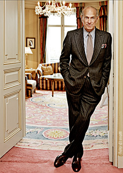 fashion designer Oscar de la Renta during a visit to Madrid, Spain. Portrayed by foto di matti in the Hotel Ritz.